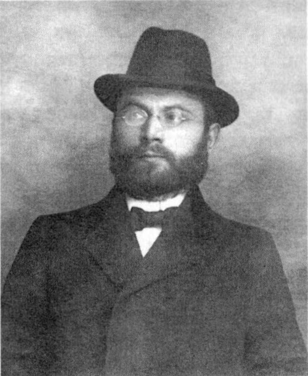 Portrait of Yechiel Yaakov Weinberg (Вайнберг, Иехиэль Яаков (ru)) as a young Rabbi in Pilwishki, which he left in 1914